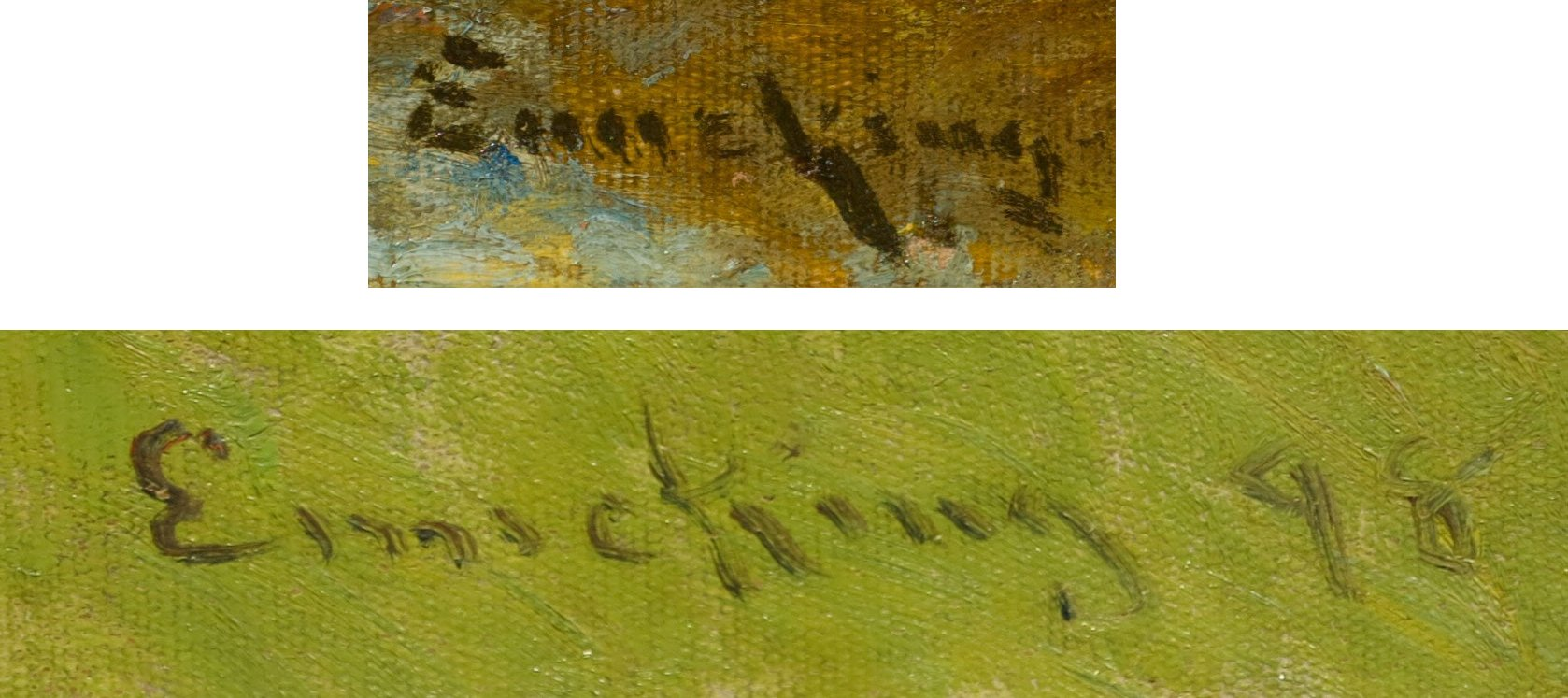 Signatures of American painter John Joseph Enneking